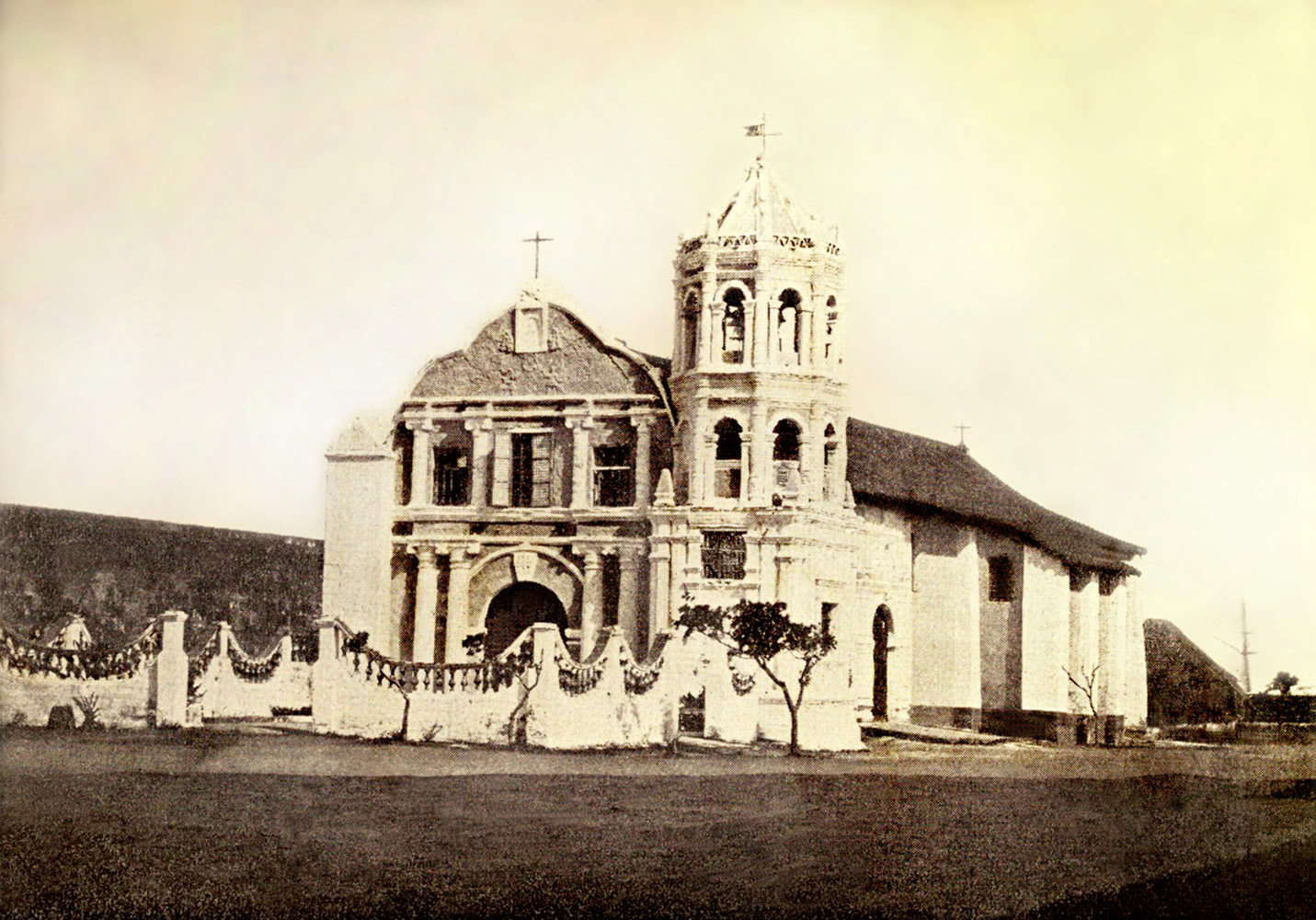 The Ermita de Porta Vaga or Porta Vaga Church in Cavite City in 1899 next to the old wall of the city.